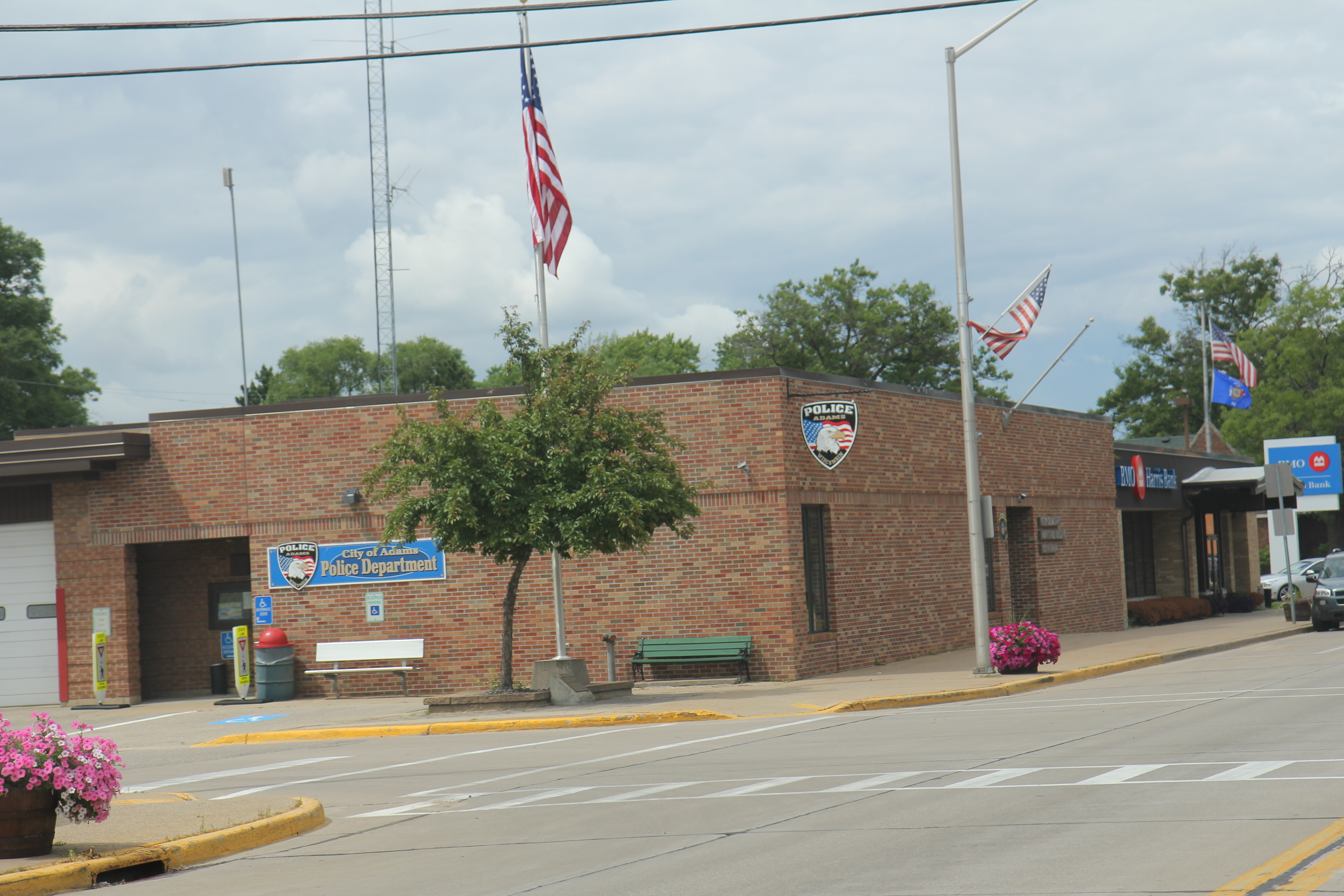 The police station in Adams, Wisconsin.